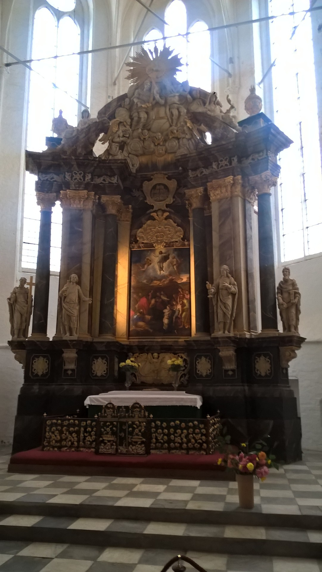 Klosterkirche Preetz, baroque high altar